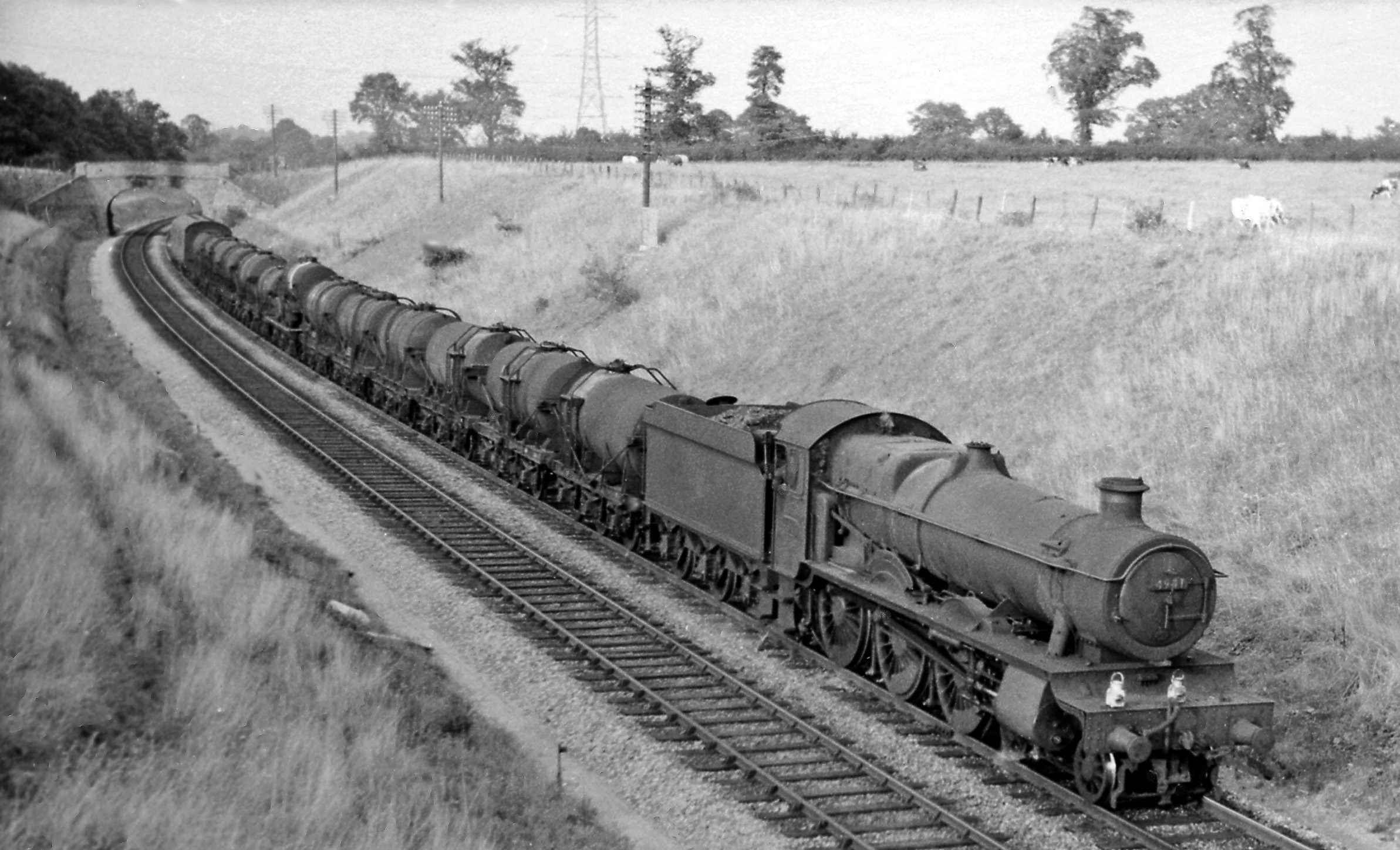 Down Milk empties at Clink Road, near Frome. View NE, towards Westbury, Reading and London; ex-GWR London - Reading - Westbury - Taunton etc. main line. (Just ahead of the train the Frome-avoiding line to Blatchbridge Junction commences). This is probably the very important Kensington - Plymouth Milk empties, returning tank-wagons to various Milk Depots in the West Country which supplied a large proportion of the capital's needs - before the age of Motorways. The locomotive is 4-6-0 No. 4941 'Llangedwyn Hall' (built 7/29, withdrawn 10/62).